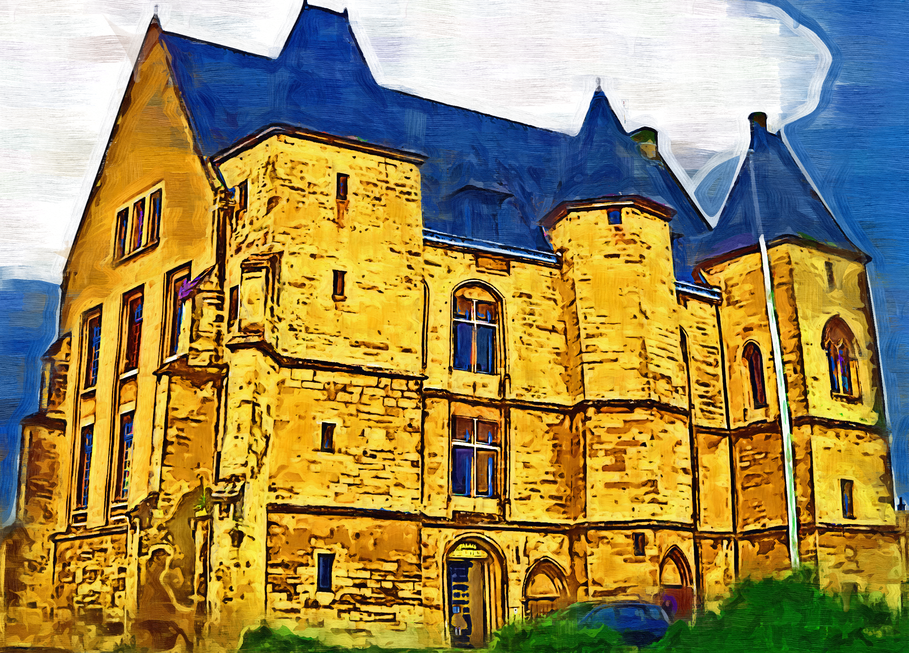 17century chateau with towers